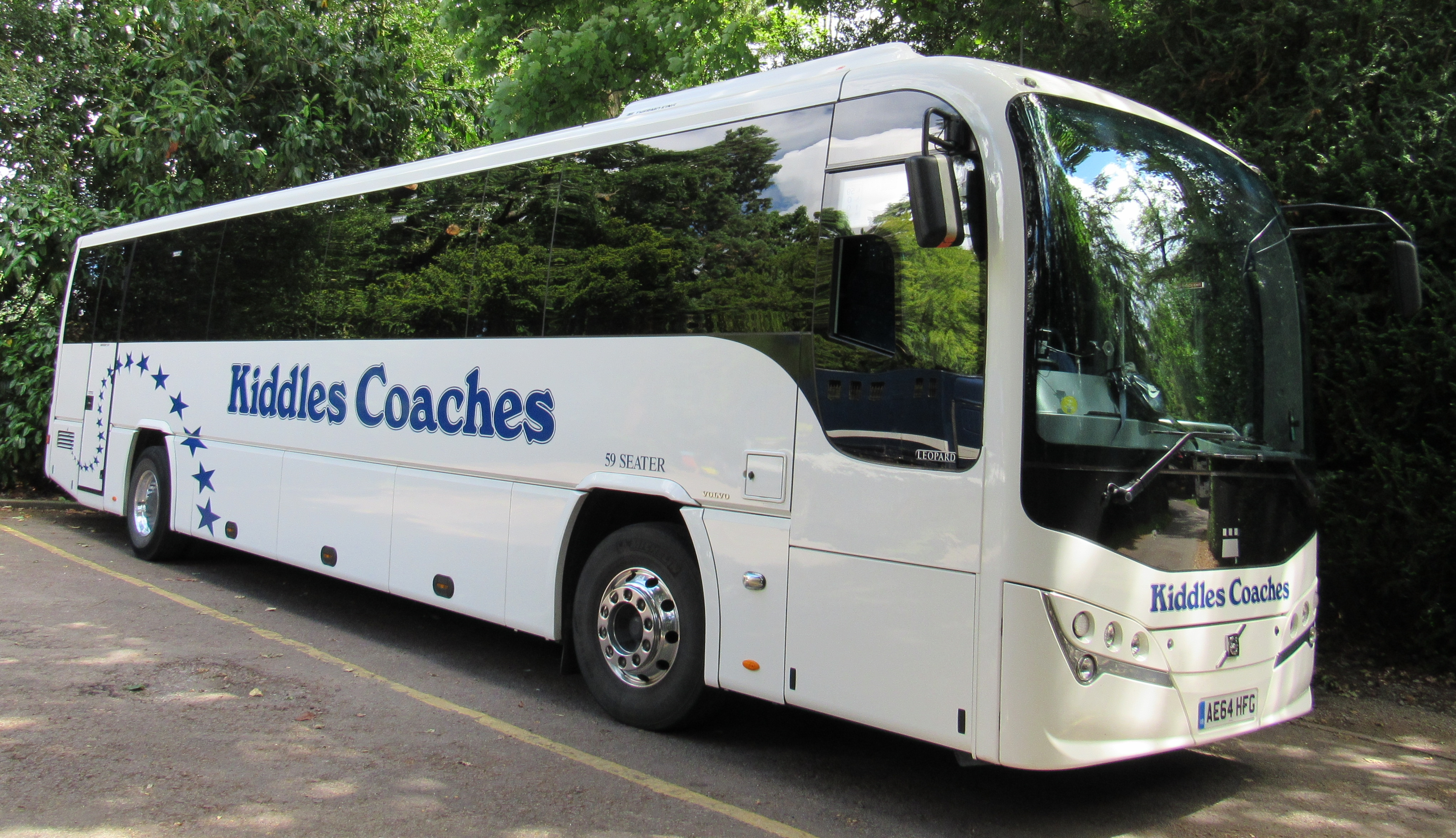 2015 Volvo B8R-bodied Plaxton Leopard 7.7 Taken at Warwick Castle